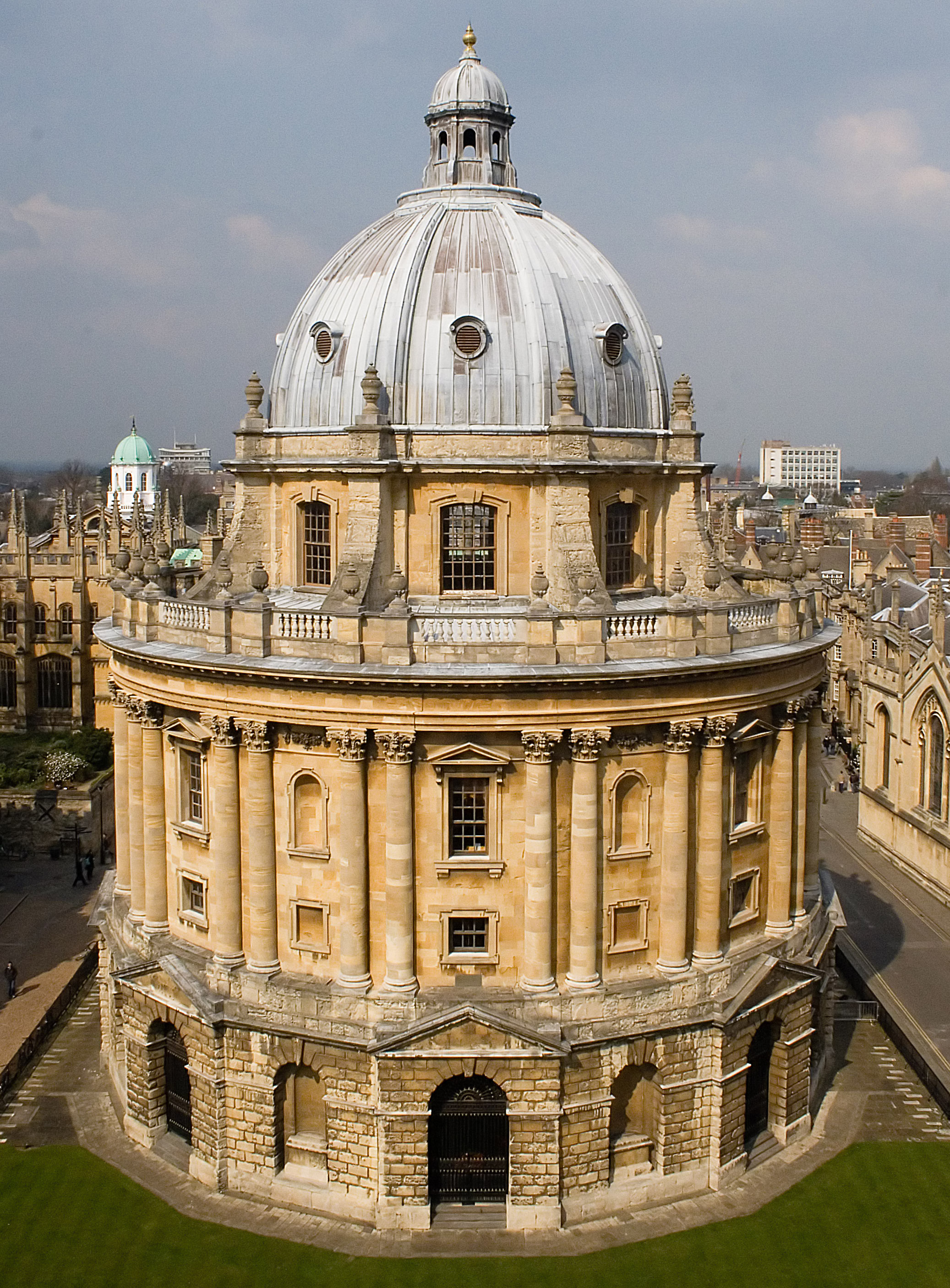 The photo of Radcliffe Camera of Bodleian Library, the main research library of the University of Oxford.